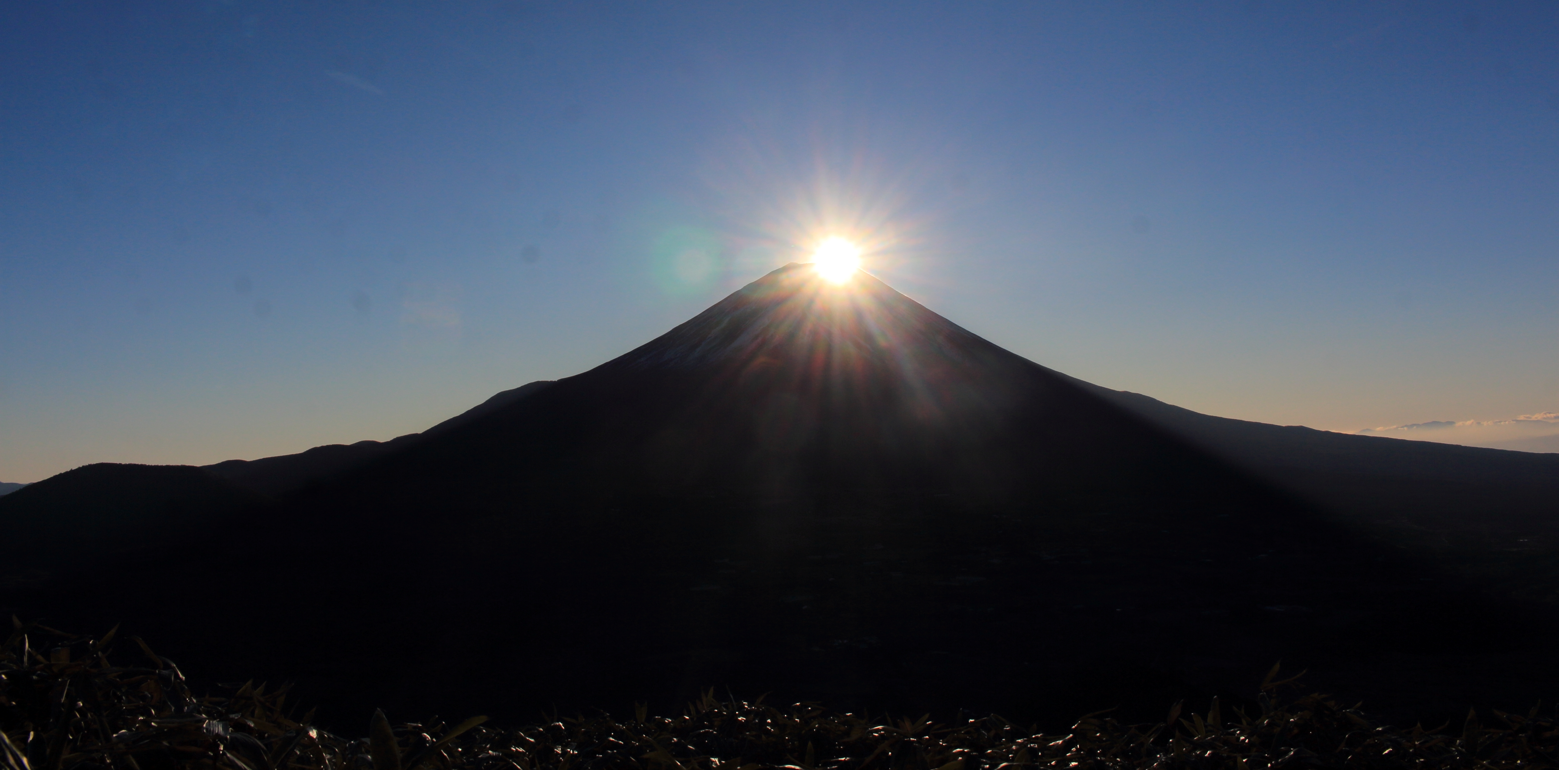 Mount Fuji (Diamond Fuji) seen from Mount Ryu (Yamanashi prefecture) in Japan.